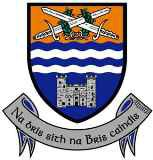 Vectorized crest of Ardee, Ireland.